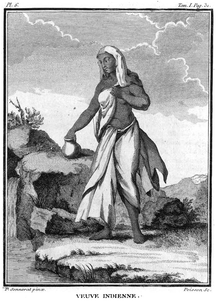 An engraving by Poison after a painting by Pierre Sonnerat (1748-1814). According to the photo caption at the web site, "Women who had lost their husbands and who had no sons to support them were often treated as outcasts in Indian society. They were no longer permitted to wear the traditional 'choli' or blouse under their saris. Illustration from Sonnerat's 'Voyage aux Indes Orientales et a la Chine, fait par ordre du roi, depuis 1774 jusqu'en 1781' ('Voyage to the East Indies and China, made by order of the king, from 1774 to 1781'), published in 1782." Uploaded by Fowler&fowler«Talk» 15:46, 2 September 2011 (UTC)